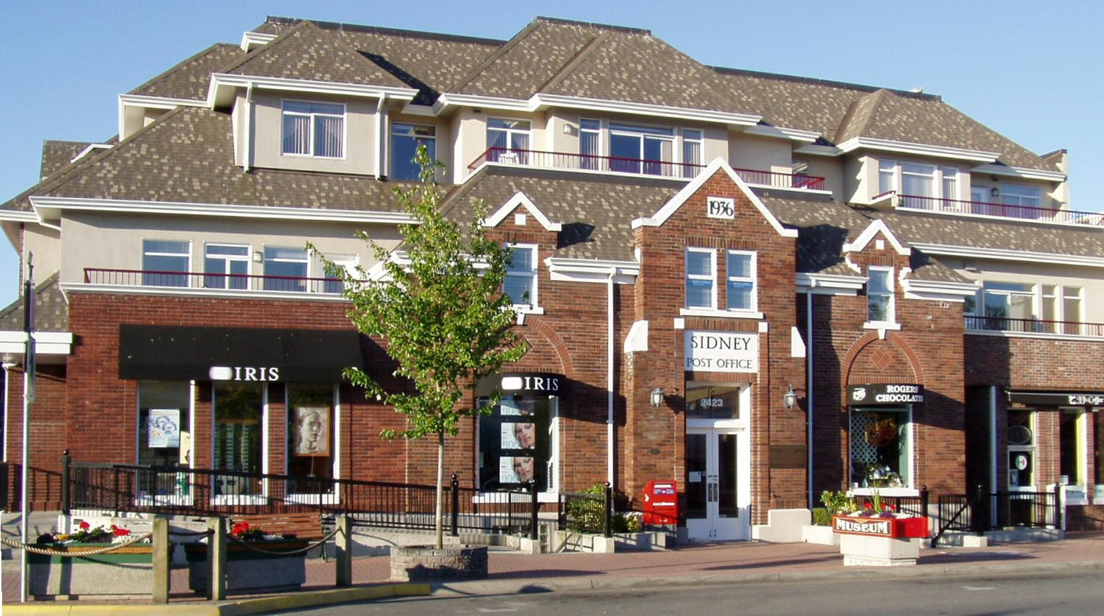 The rebuilt post office building located in Sidney, British Columbia. The original brick building was erected in 1936. The building is currently home to the Sidney Historical Museum